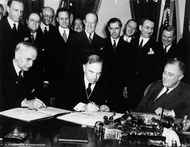 Signing of the United States-Canada Trade Agreement. (Seated, L-R): Cordell Hull, W.L. Mackenzie King, Franklin D. Roosevelt in Washington, D.C., U.S.A.